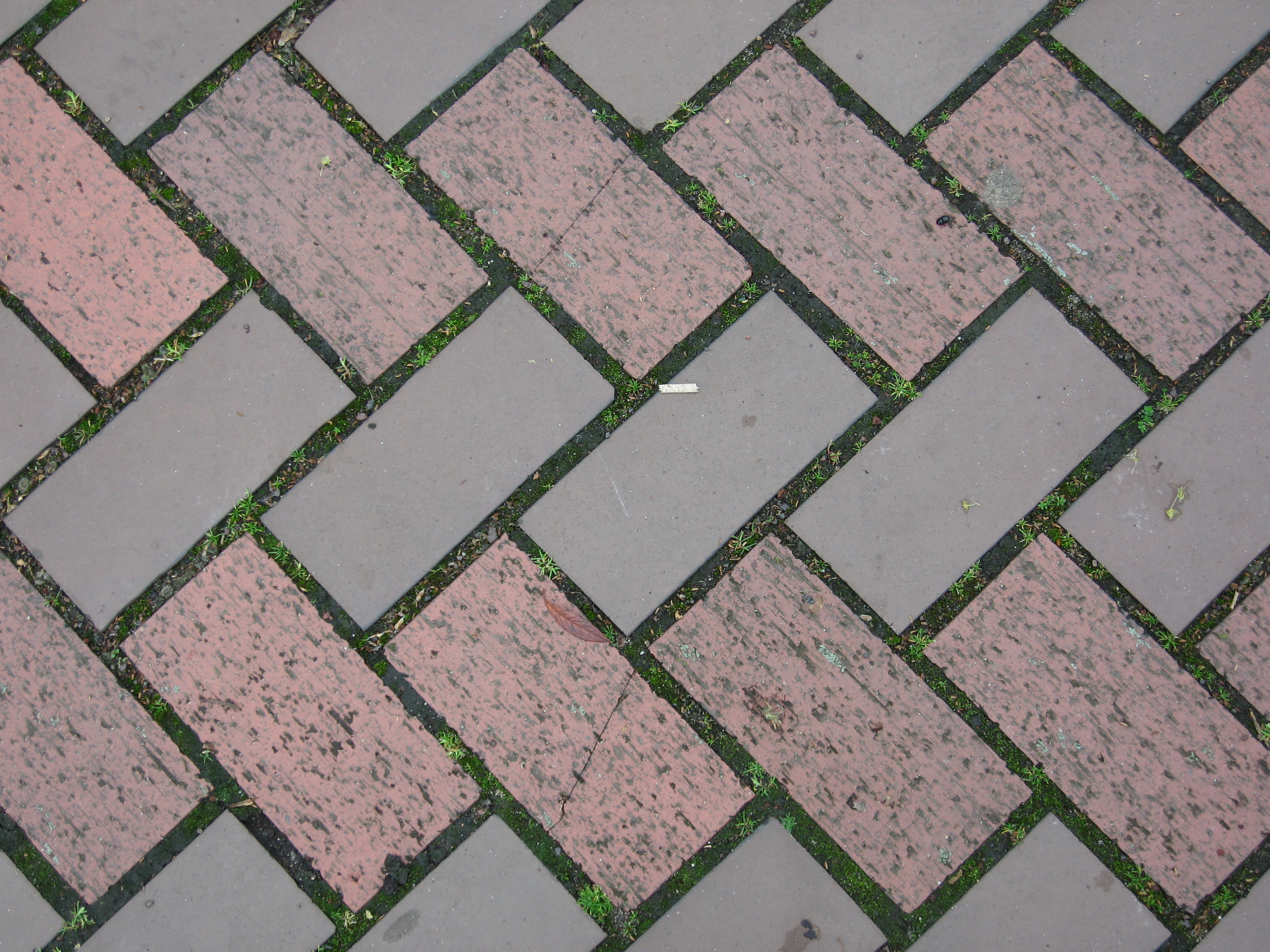 Pavement (herringbone bond) in Cologne, Germany, in front of the Museum of East Asian Art.